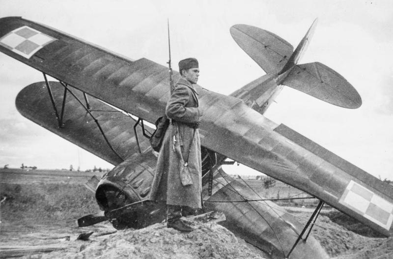 The Nazi-soviet Invasion of Poland, 1939 Red Army soldier guarding a Polish PWS-26 trainer aircraft shot down near the city of Równe (Rivne) in the Soviet occupied part of Poland.